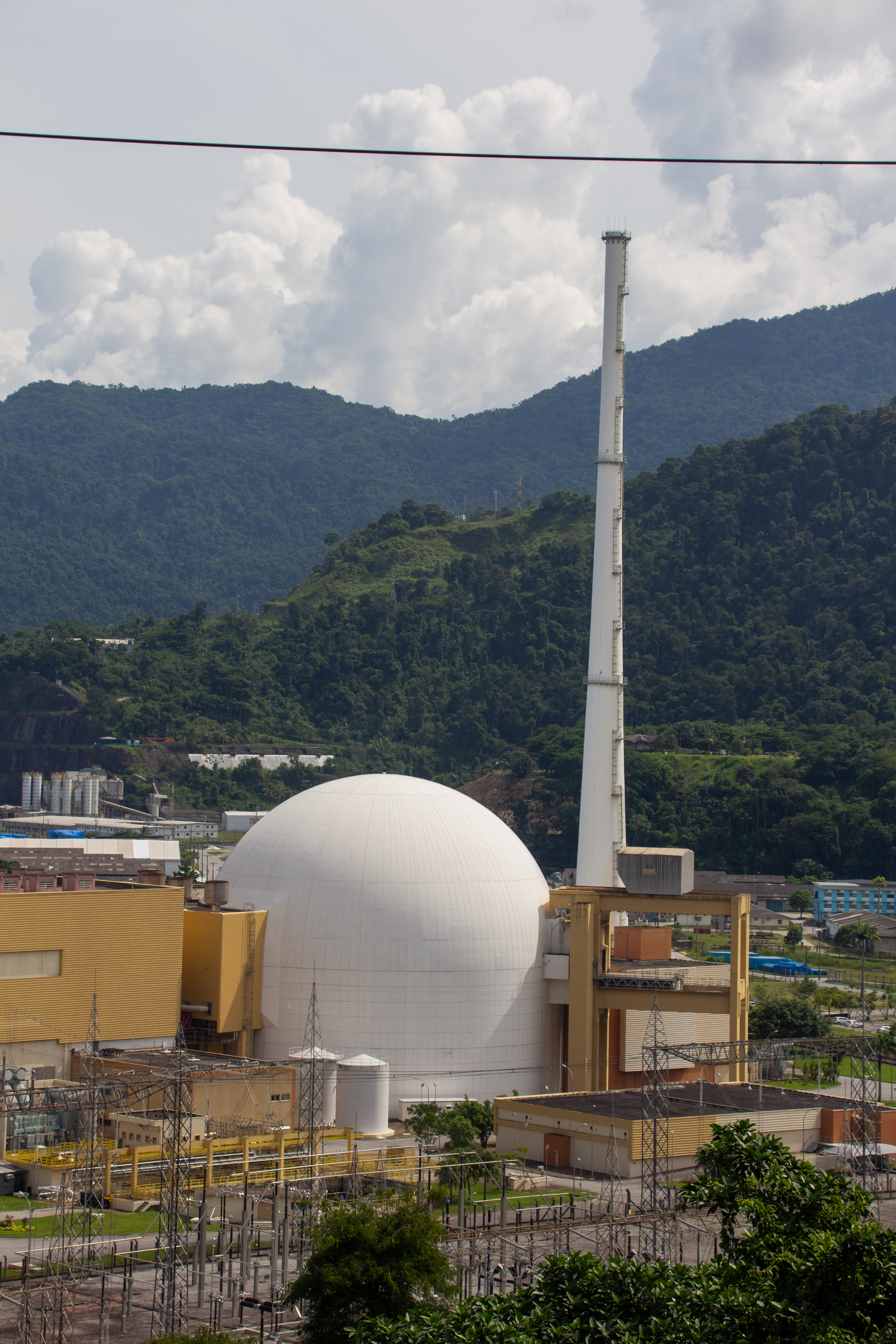 Around Paraty and area, Brazil